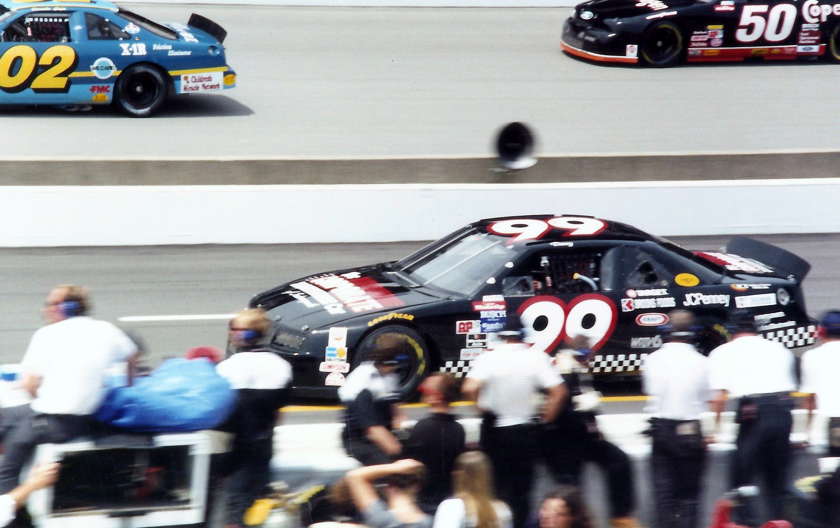 1994 NASCAR Brickyard 400 at the Indianapolis Motor Speedway. Danny Sullivan in the pit area.